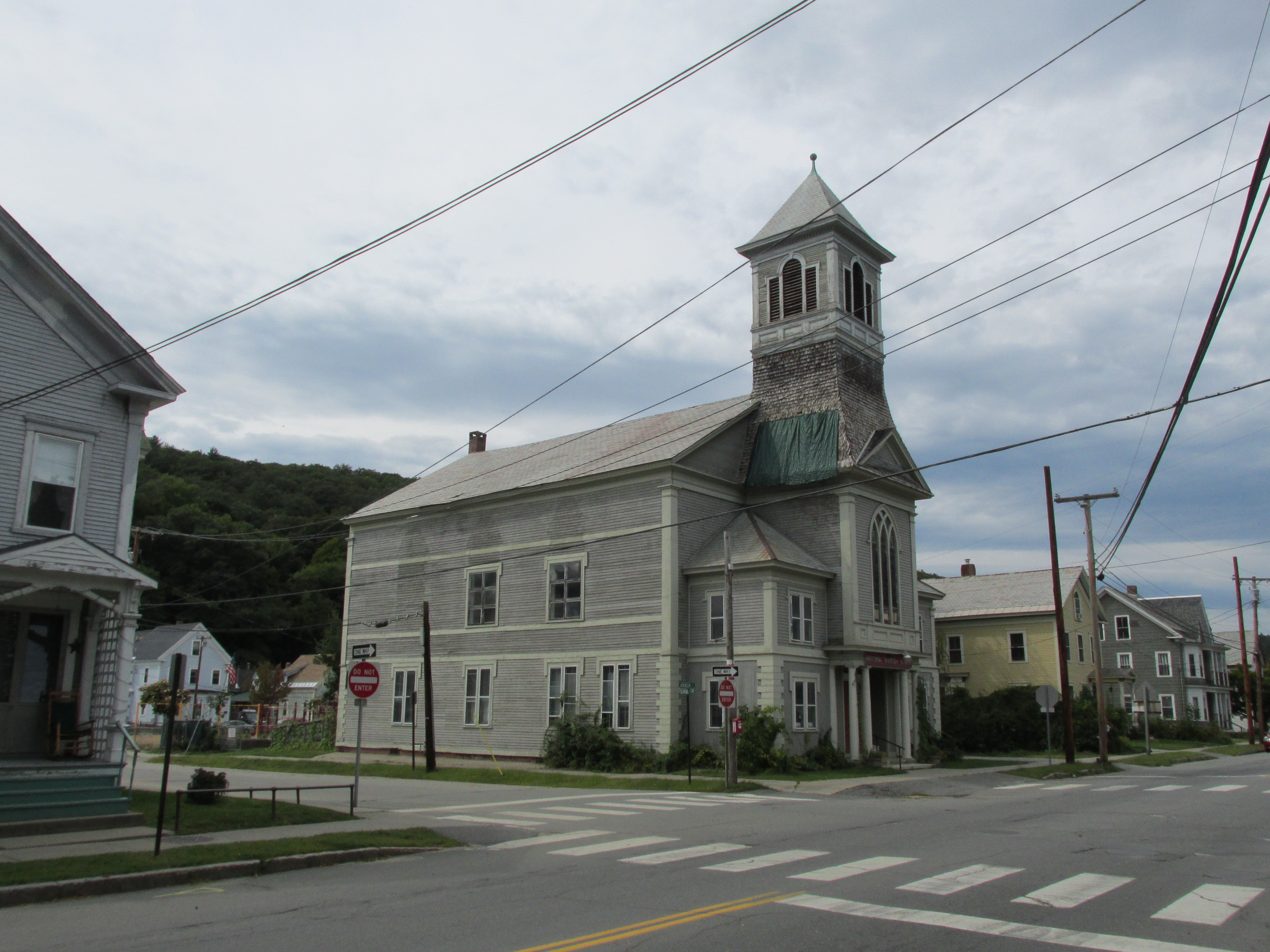 Meeting Waters YMCA in the Bellows Falls Neighborhood Historic District, Bellows Falls Vermont